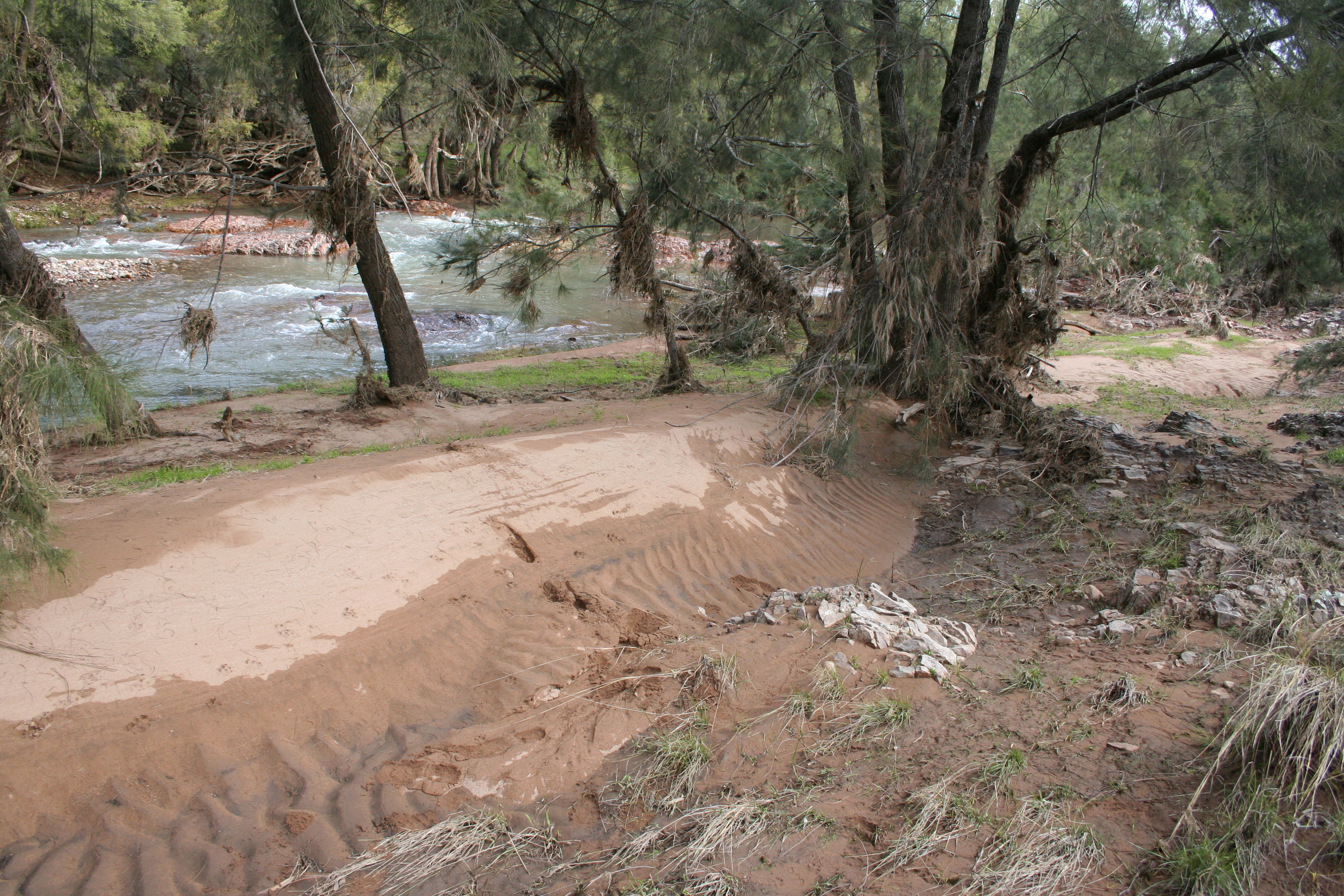 Sediment shadow on the downstream side of a tree rooted within a sandy channel of Rocky Creek (Australia)